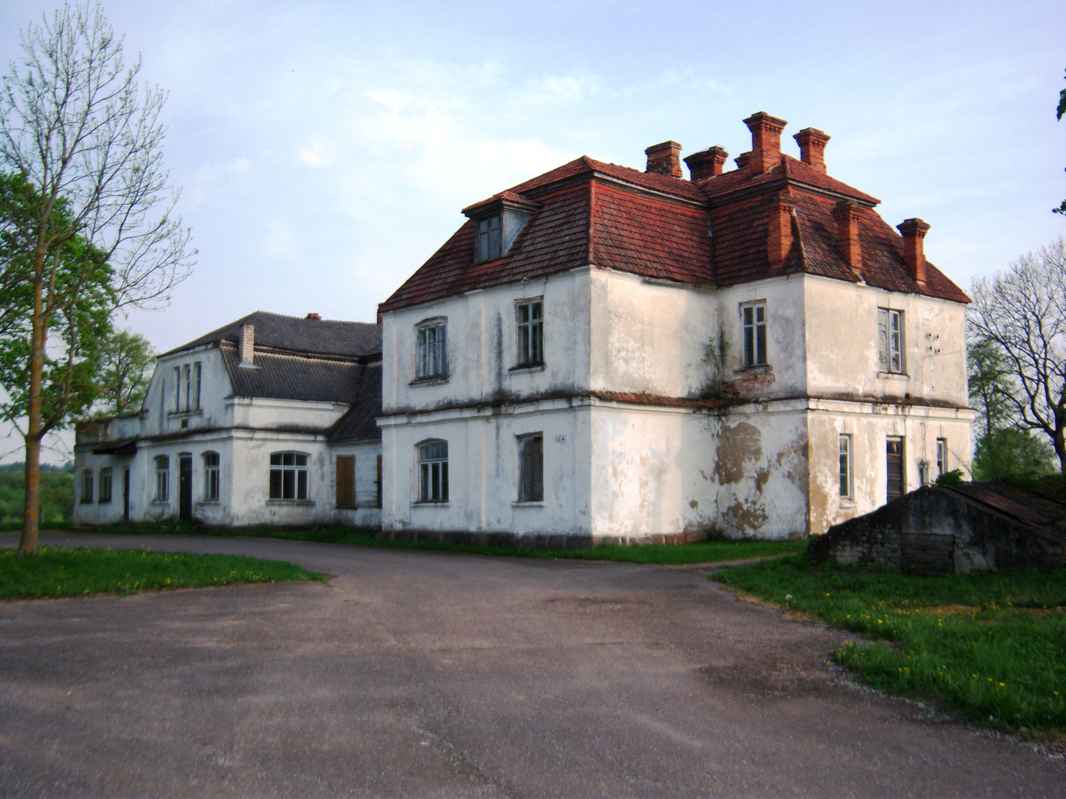 Former Panevėžiukas manor, Kaunas district, Lithuania